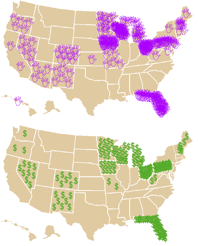 These maps show the amount of attention the Bush and Kerry campaigns (considered together) gave to each state during the final five weeks of the 2004 election: At the top, each waving hand represents a visit from a presidential or vice-presidential candidate during the final five weeks of the election. (Candidates' visits to their own home states are not counted.) At the bottom, each dollar sign represents one million dollars spent on TV advertising by the campaigns during the same time period. Data from FairVote's report, "Who Picks the President?"